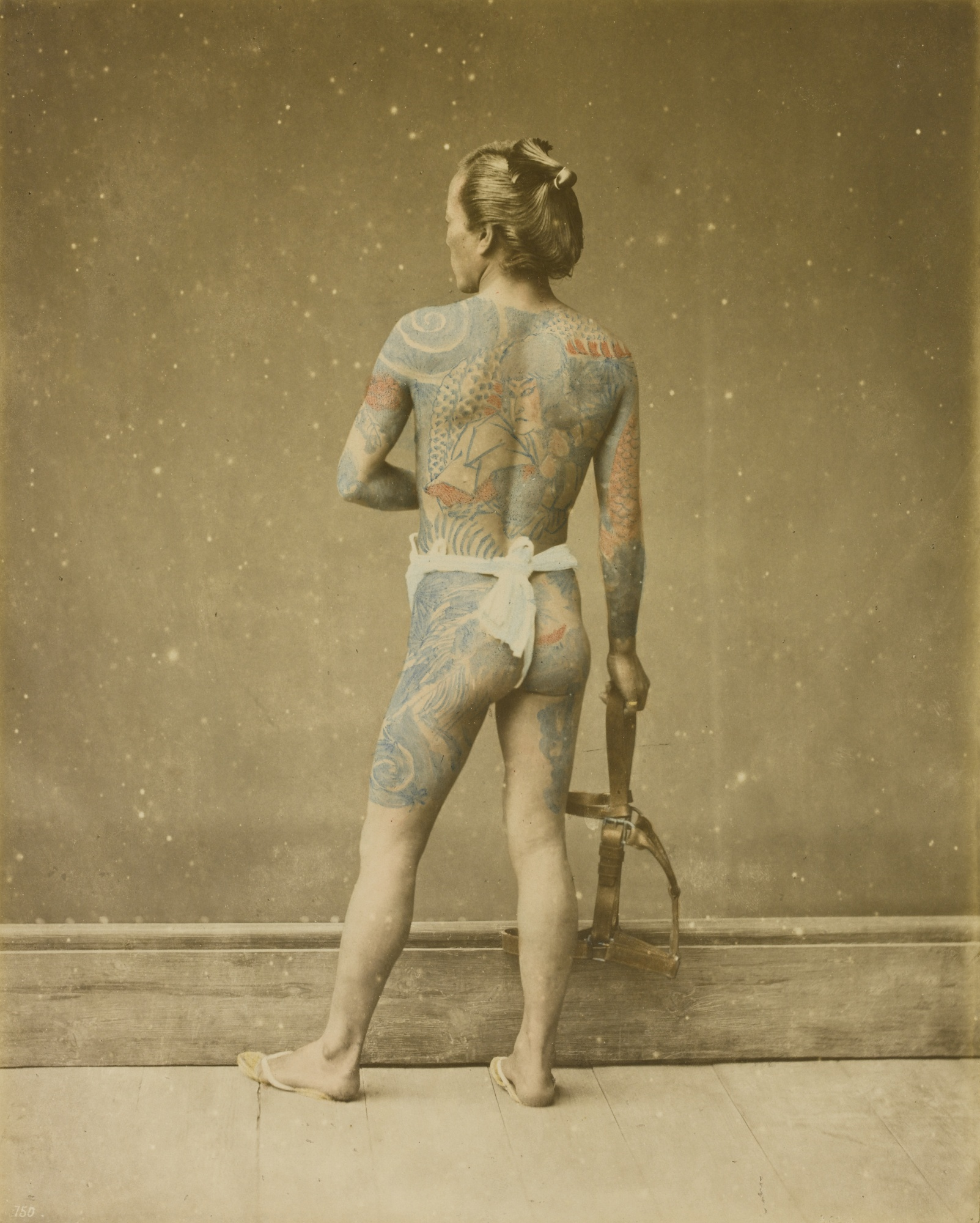 Portrait of a man with Japanese Irezumi Tattoo